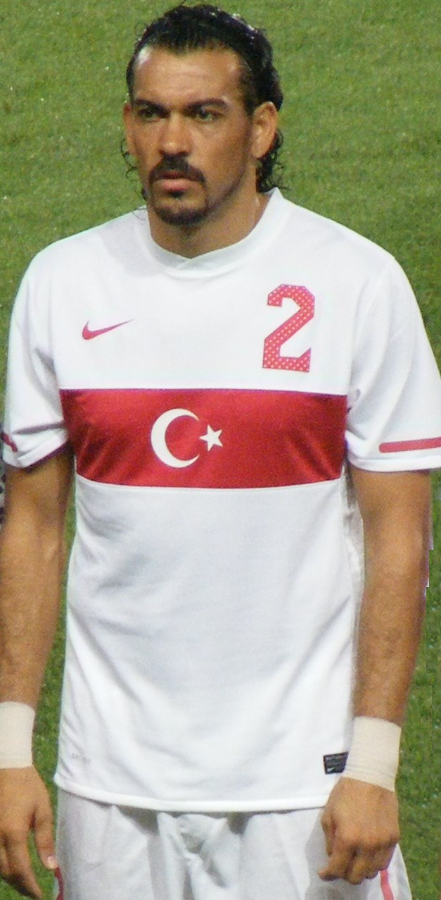 Servet Cetin in national jersey at match vs Romania in 11st Aug 2010, Wednesday at Fenerbahce Stadium, Istanbul